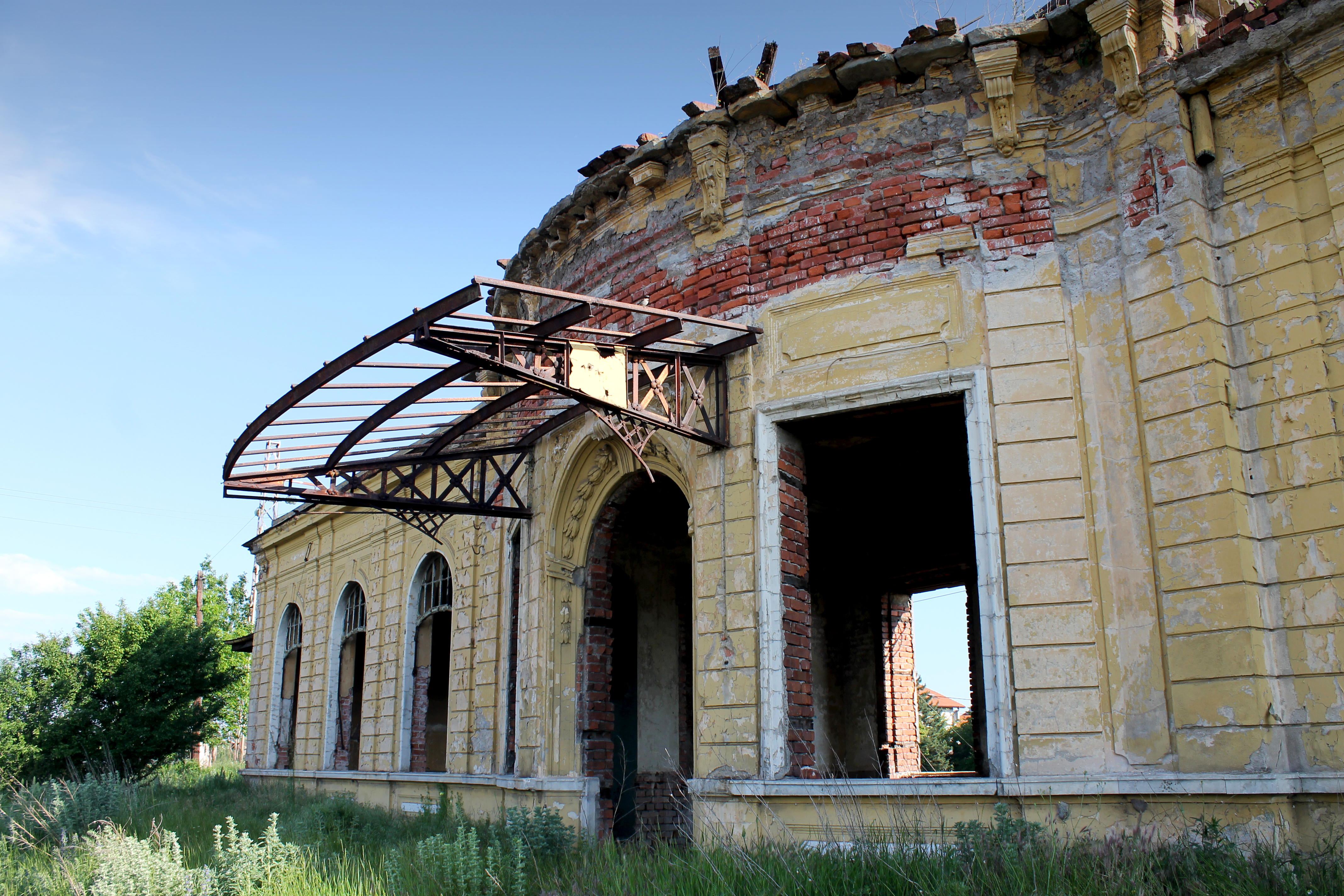 Old train station in Kazitchene